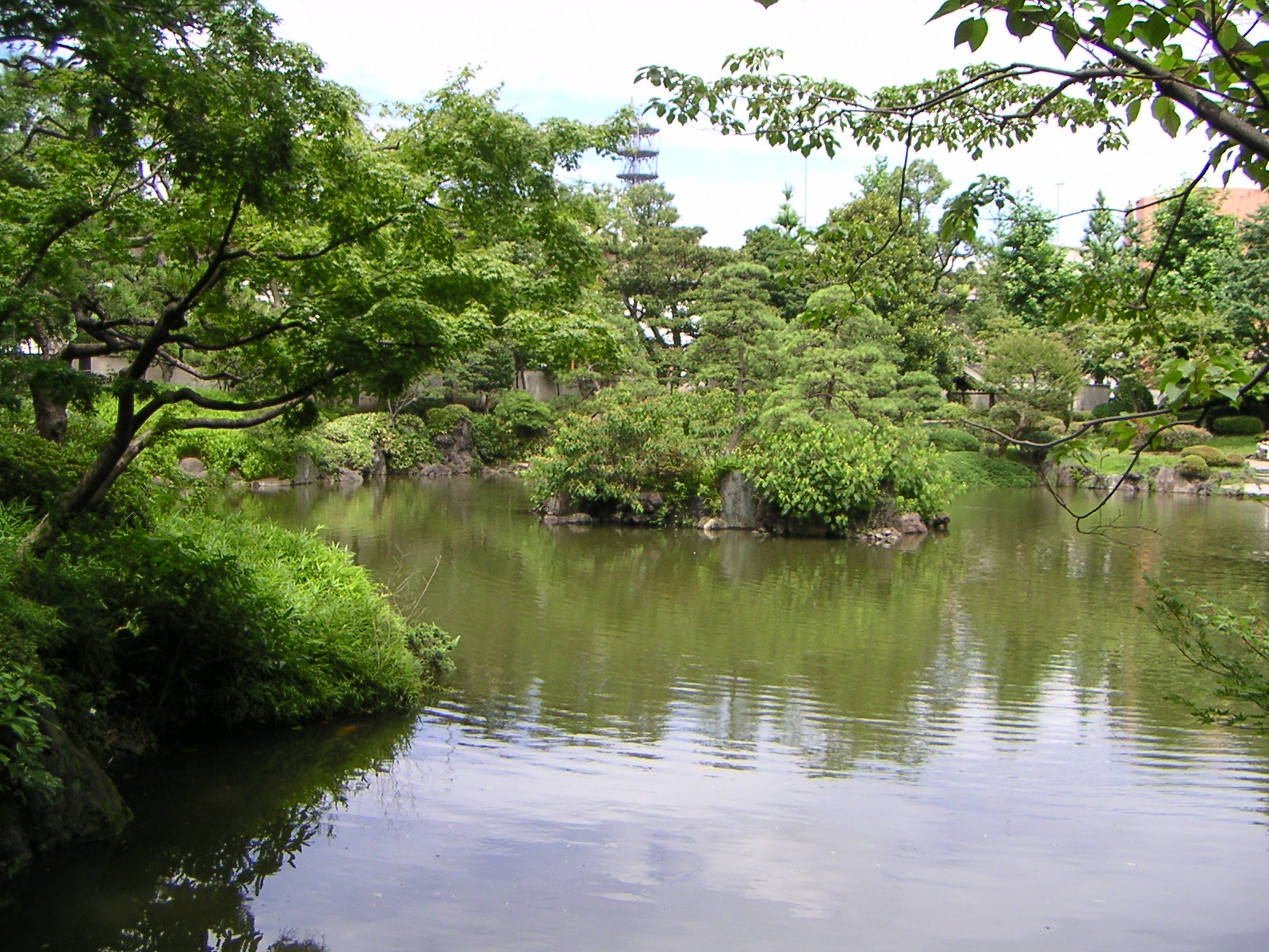 Kyu-Yasuda teien